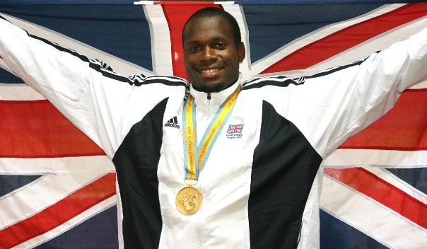 Gold medal ceremony at the world student games after re-run.